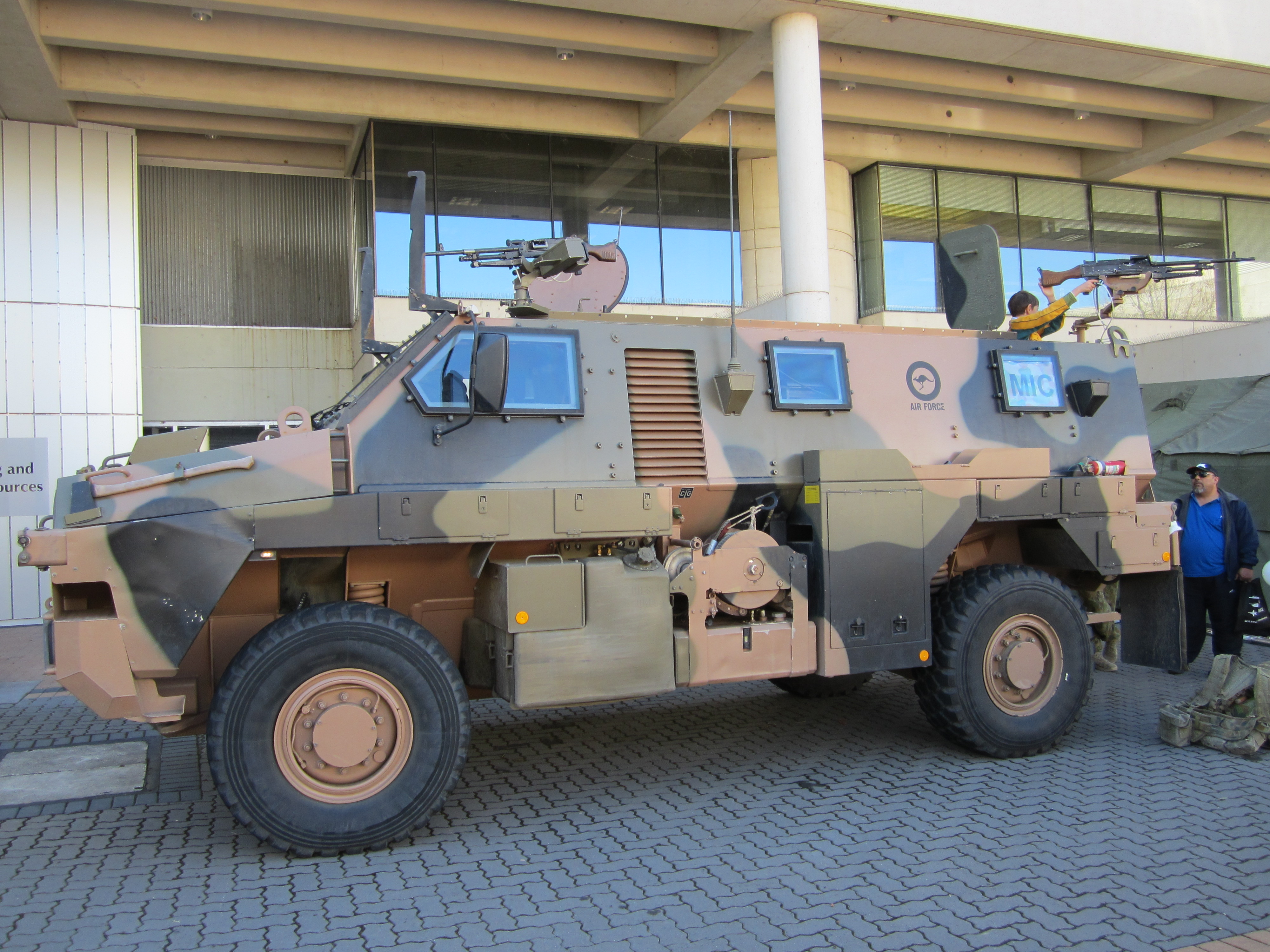 A Royal Australian Air Force Bushmaster on display at the 2012 ADFA open day